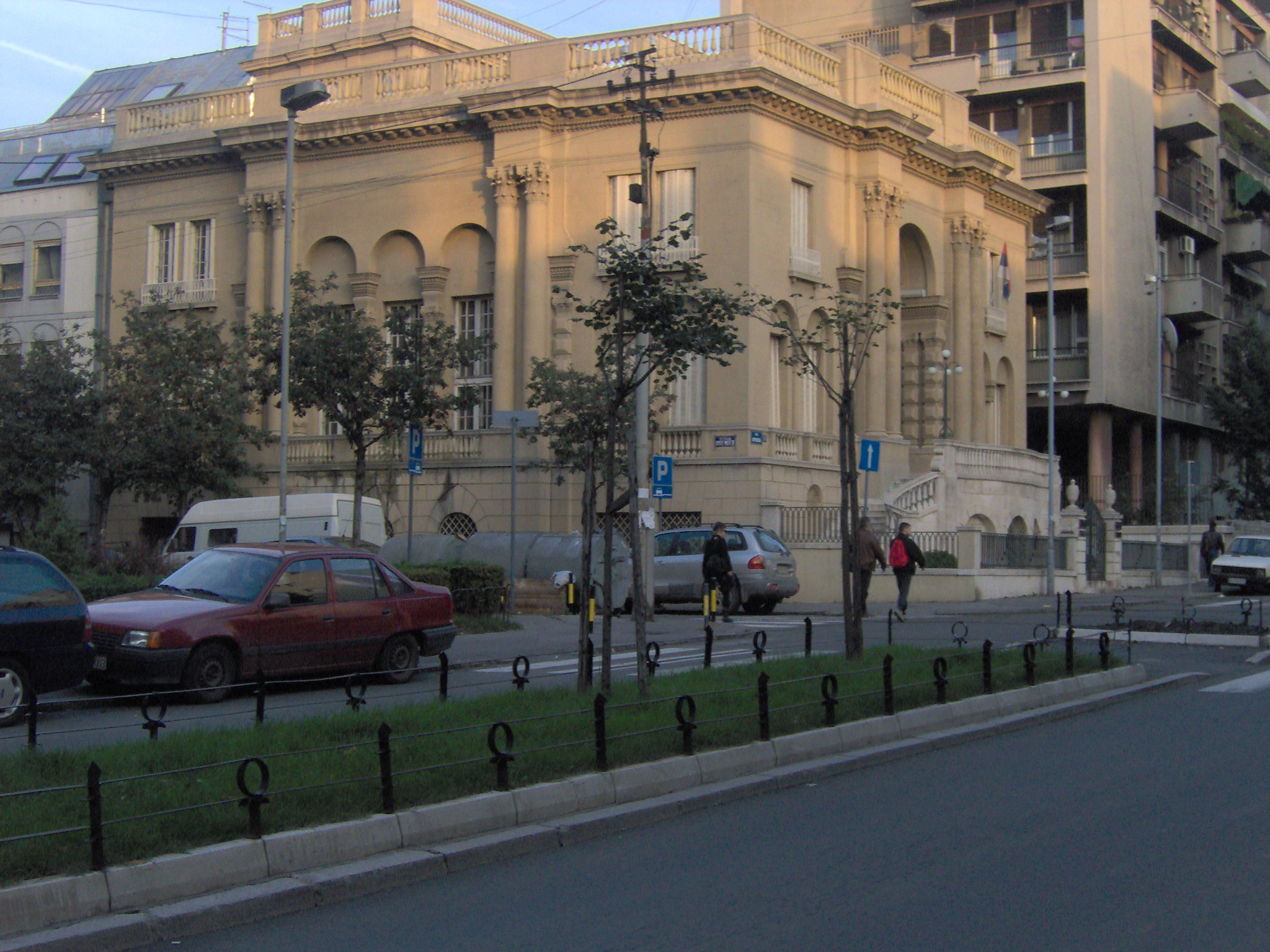 Created by me :-)